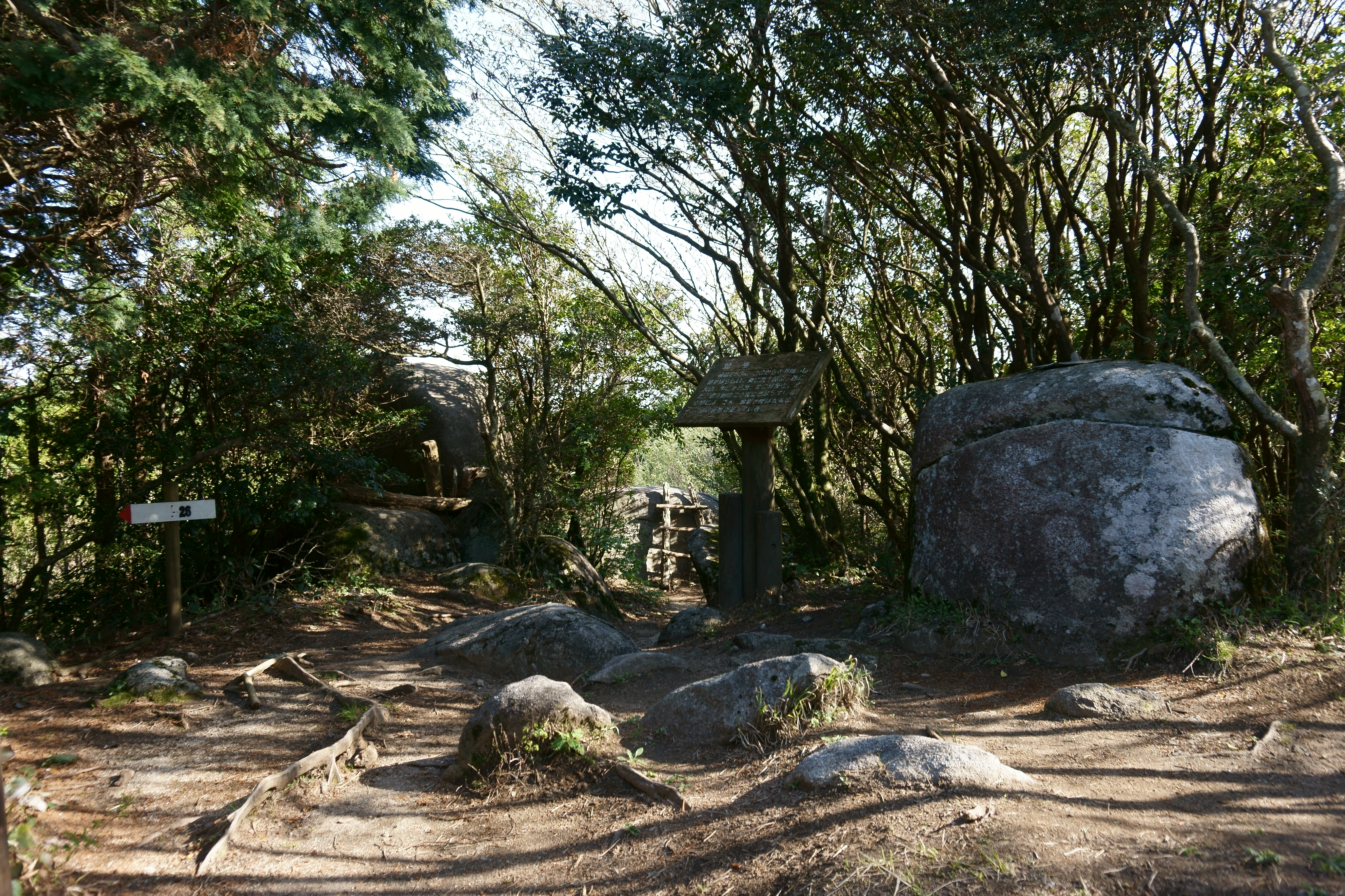 Tthe peak of Mount Hamaguri, in Yoshinogari town, Saga prefecture.